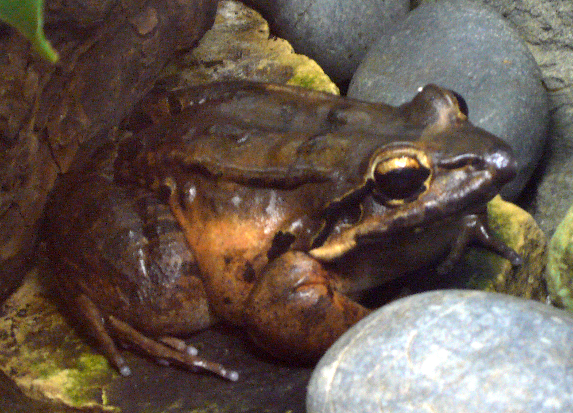 Giant Ditch Frog (Leptodactylus fallax)